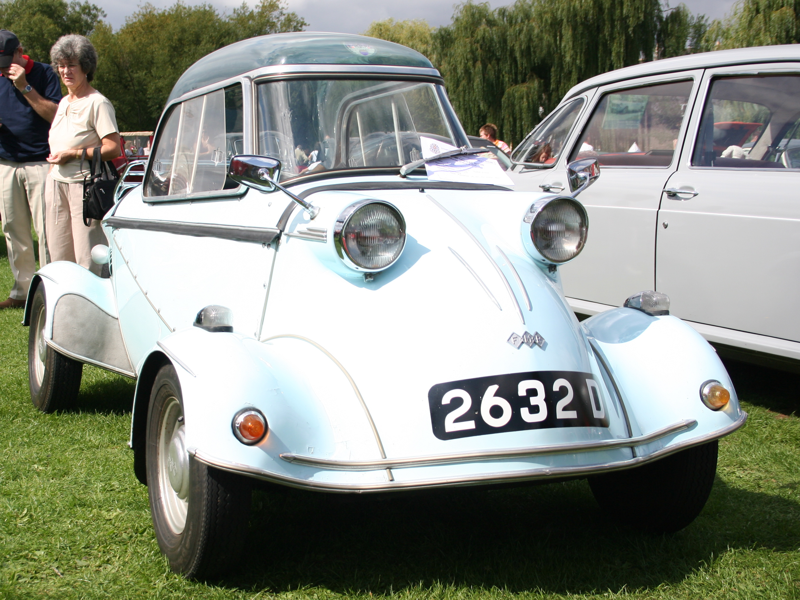 Messerschmitt 4 wheeler (actually a FMR Tg500)